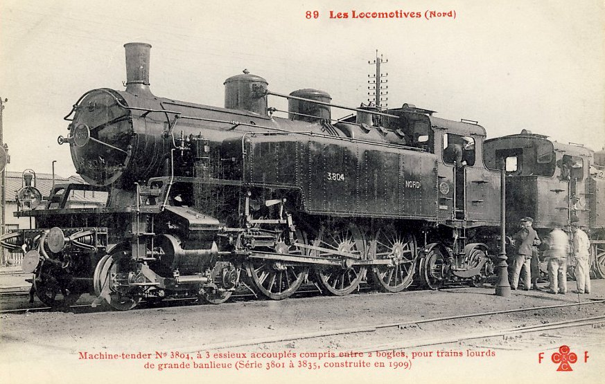 Locomotive-tender 232 (4-6-4) Nord 3804, 1909, France.